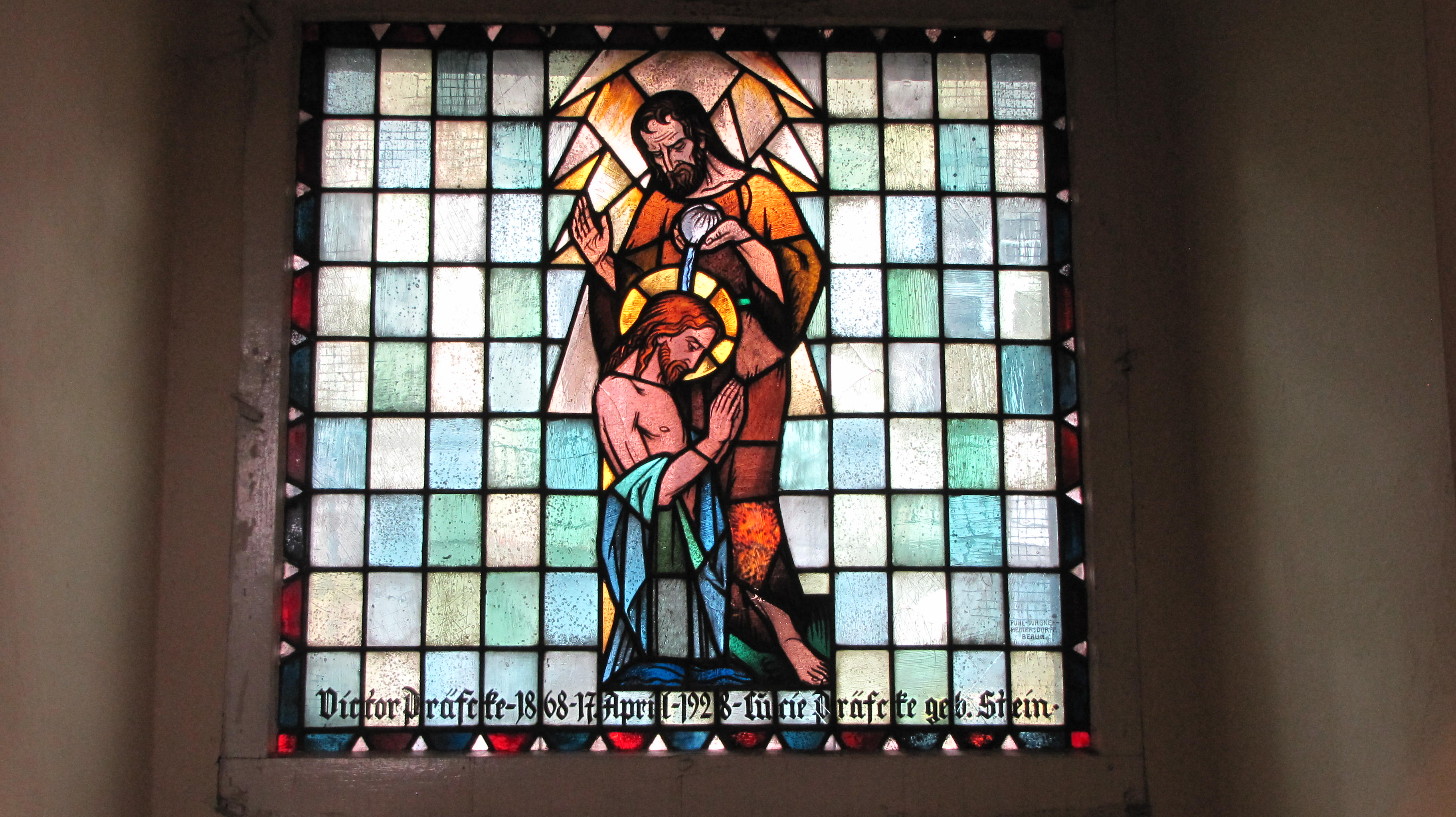 Stained glass window showing the baptism of Christ, Stadtkirche Neustrelitz, donated by Victor and Lucie Praefcke at the 60th anniversary of their wedding